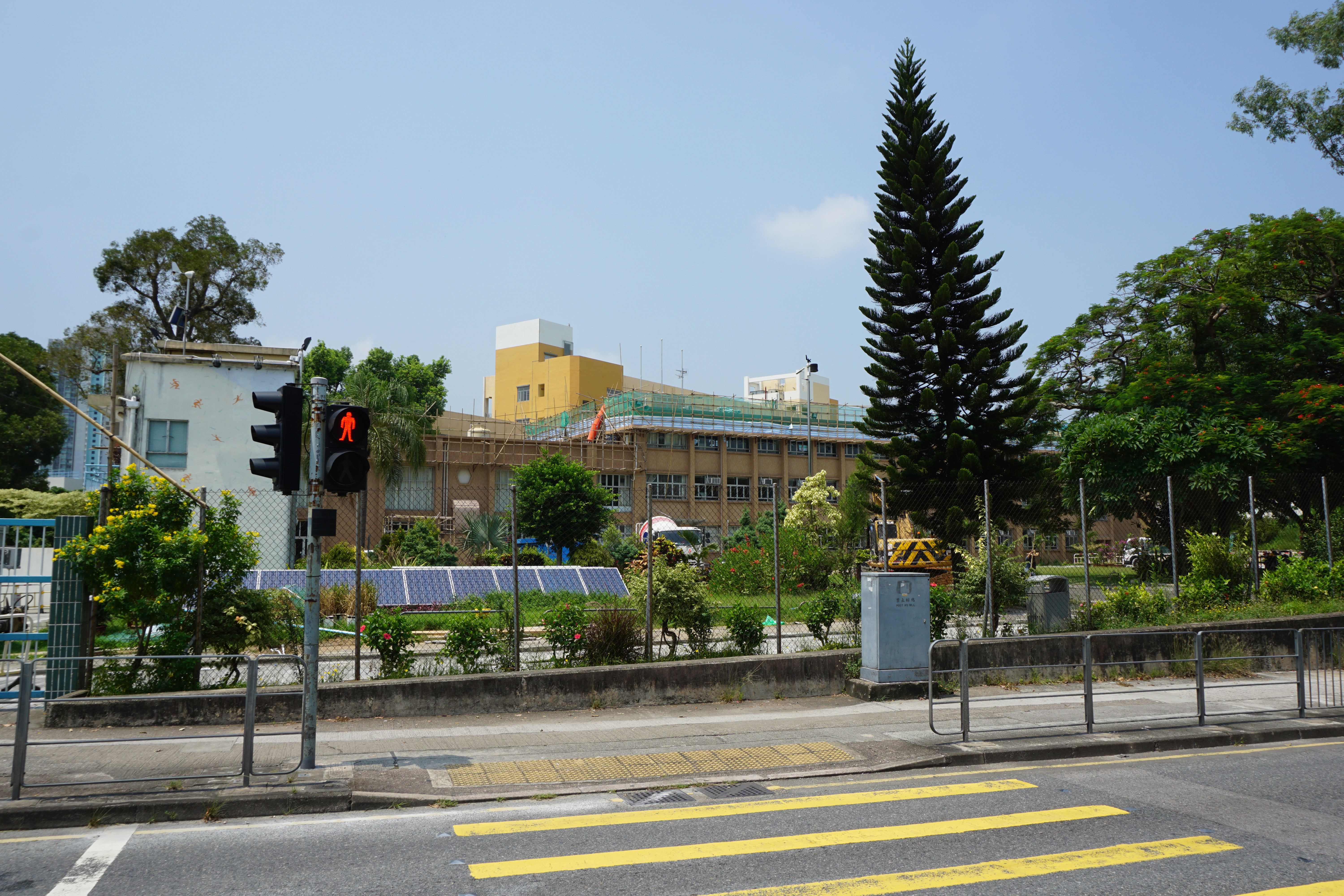 Lutheran Secondary School in Fanling, Hong Kong.